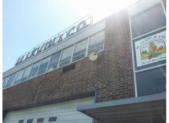 M. Levin & Co., 326 Pattison Avenue, Philadelphia, PA 19148, built 1957, (June 1, 2014).